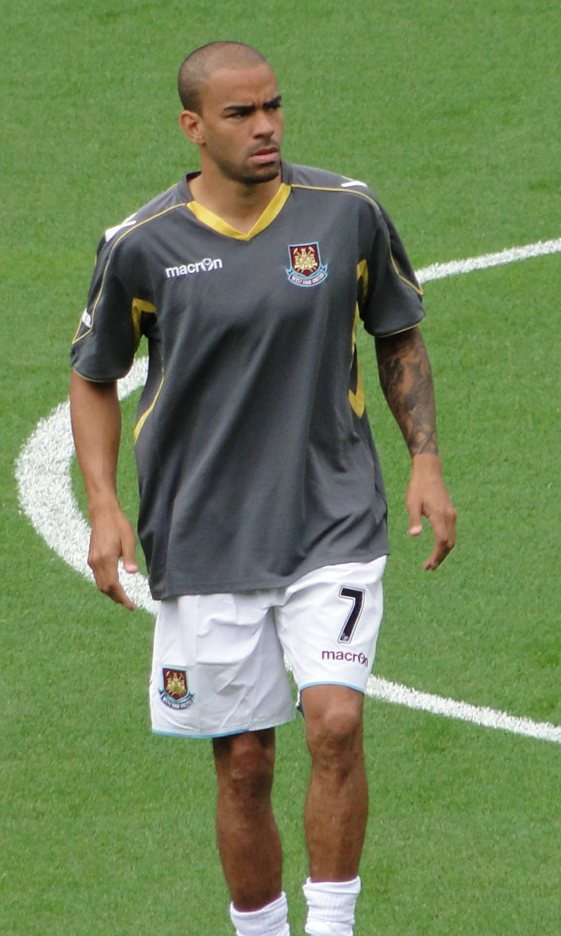 A rare appearance for West Ham by Keiron Dyer against Bolton Wanderers, 21/08/2010